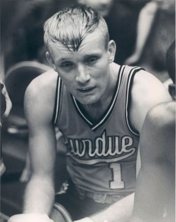 Professional basketball player Rick Mount